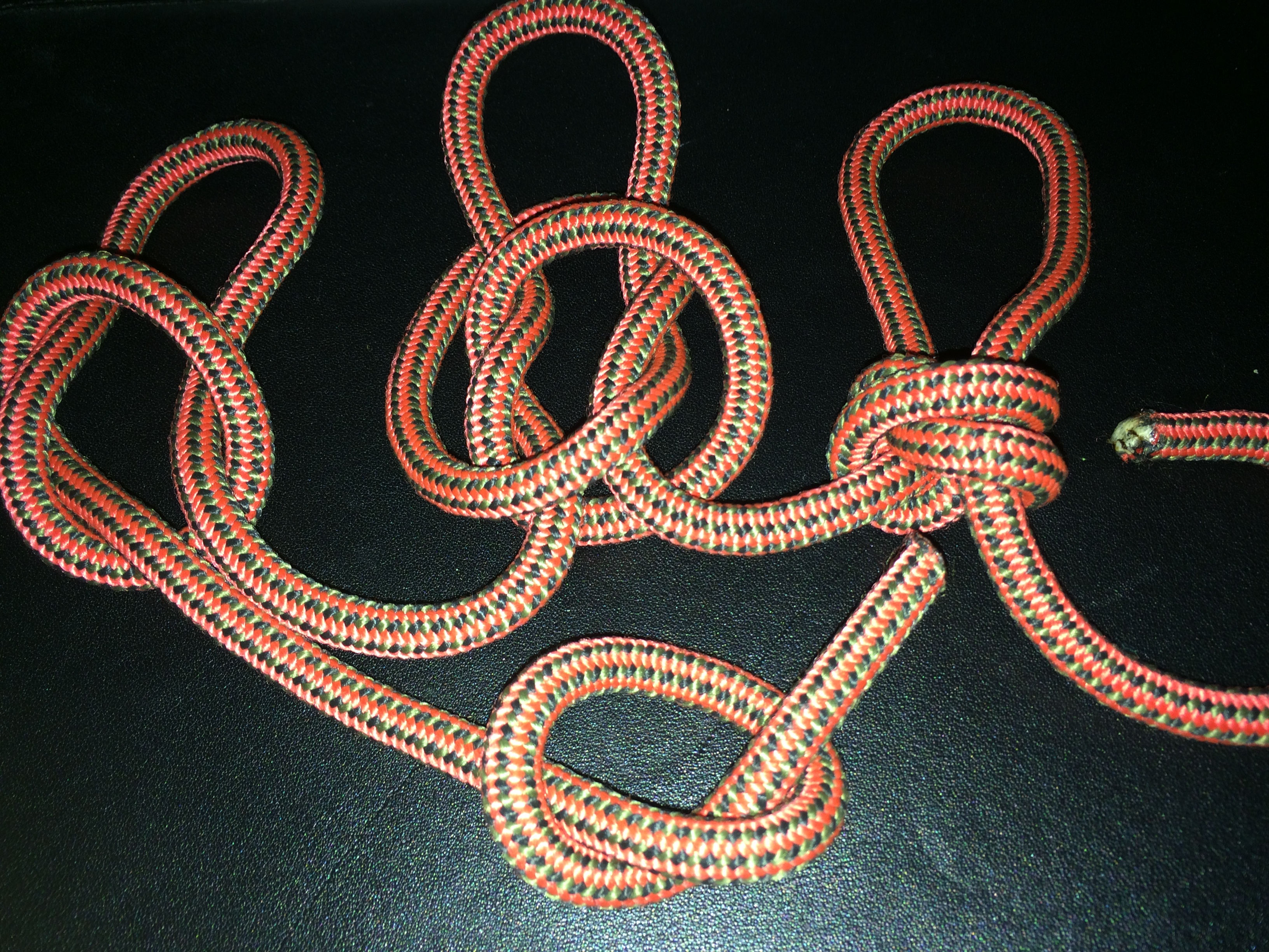 The four stages of tying the real lovers knot loop